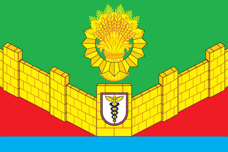 Flag of Tbilisskoe rural settlement, Krasnodar Territory, Russia